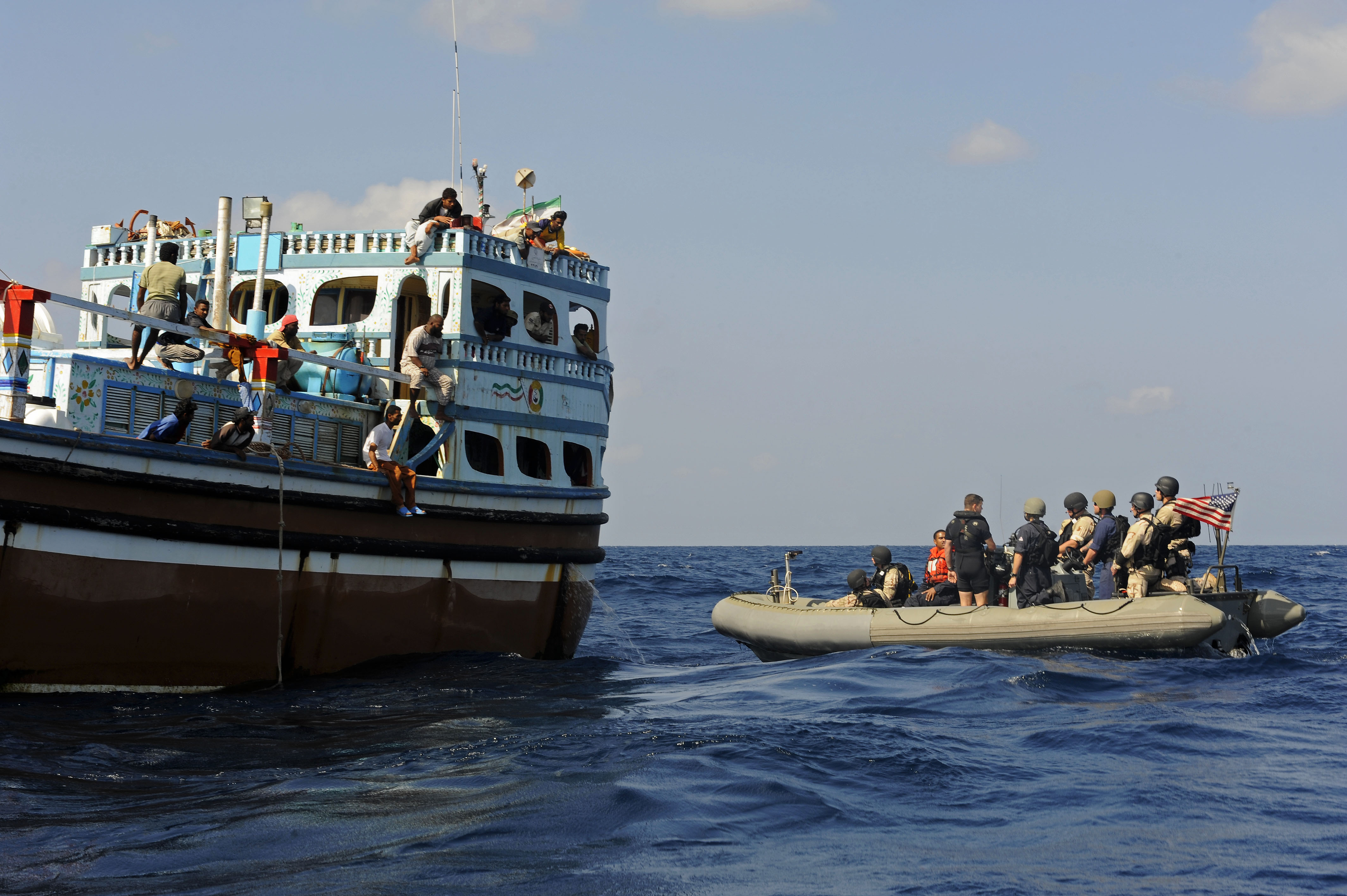 ARABIAN SEA (Jan. 18, 2012) A rigid hull inflatable boat with Sailors from the guided-missile destroyer USS Dewey's (DDG 105) visit, board, search and seizure team speak with mariners on an Iranian fishing dhow. Dewey, assigned to Commander, Task Force 50, responded to a distress call from the Iranian fishing dhow Al Mamsoor, which indicated it was sinking and in need of assistance. Dewey is conducting maritime security operations and theater security cooperation efforts in the U.S. 5th Fleet area of responsibility. (U.S. Navy photo by Mass Communication Specialist 3rd Class Joshua Keim/Released)